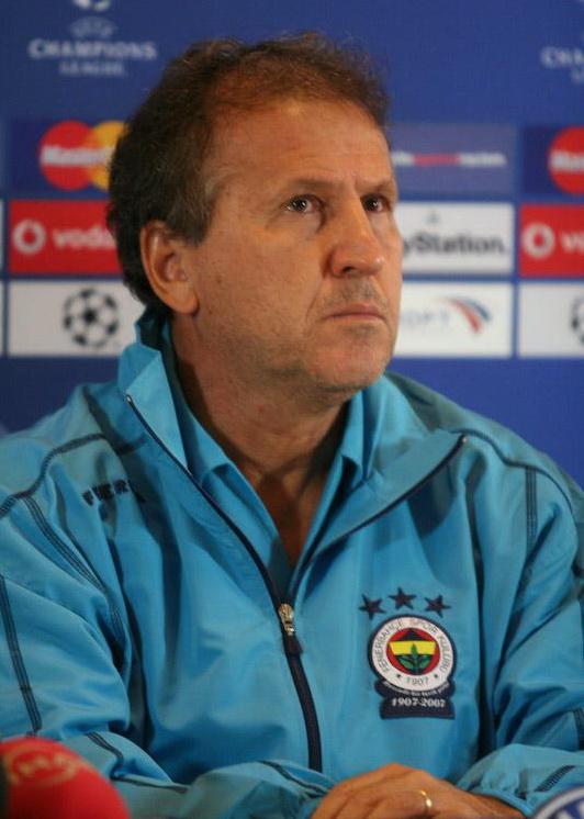 Zico